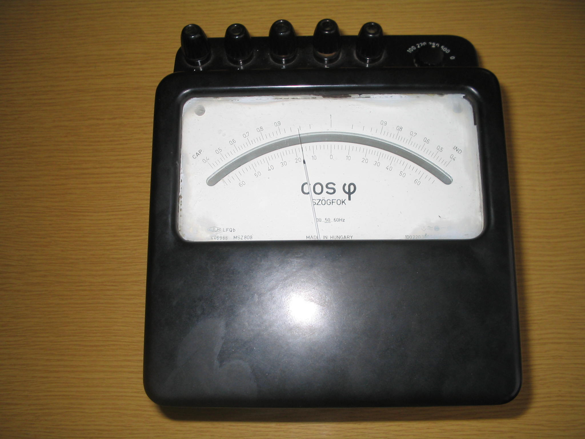 Laboratory instrument for measuring cosφ (power factor)